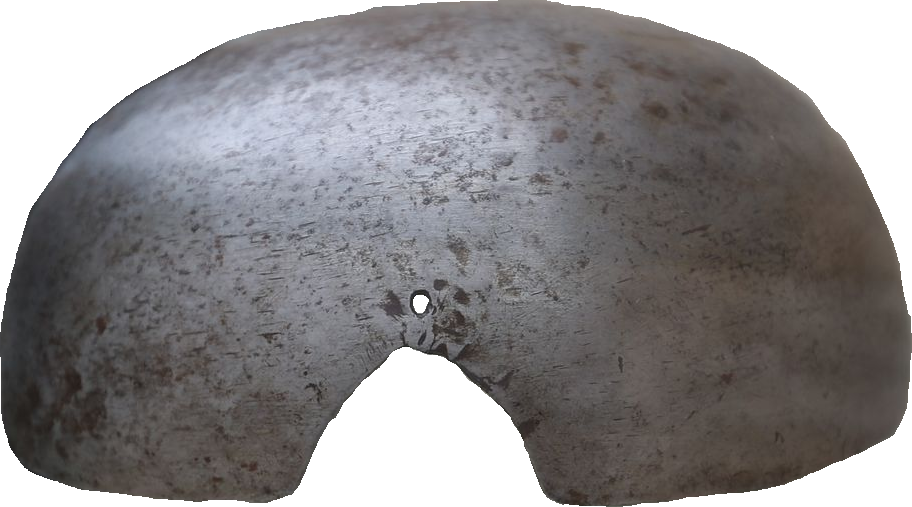 Secrete in Lincoln, England